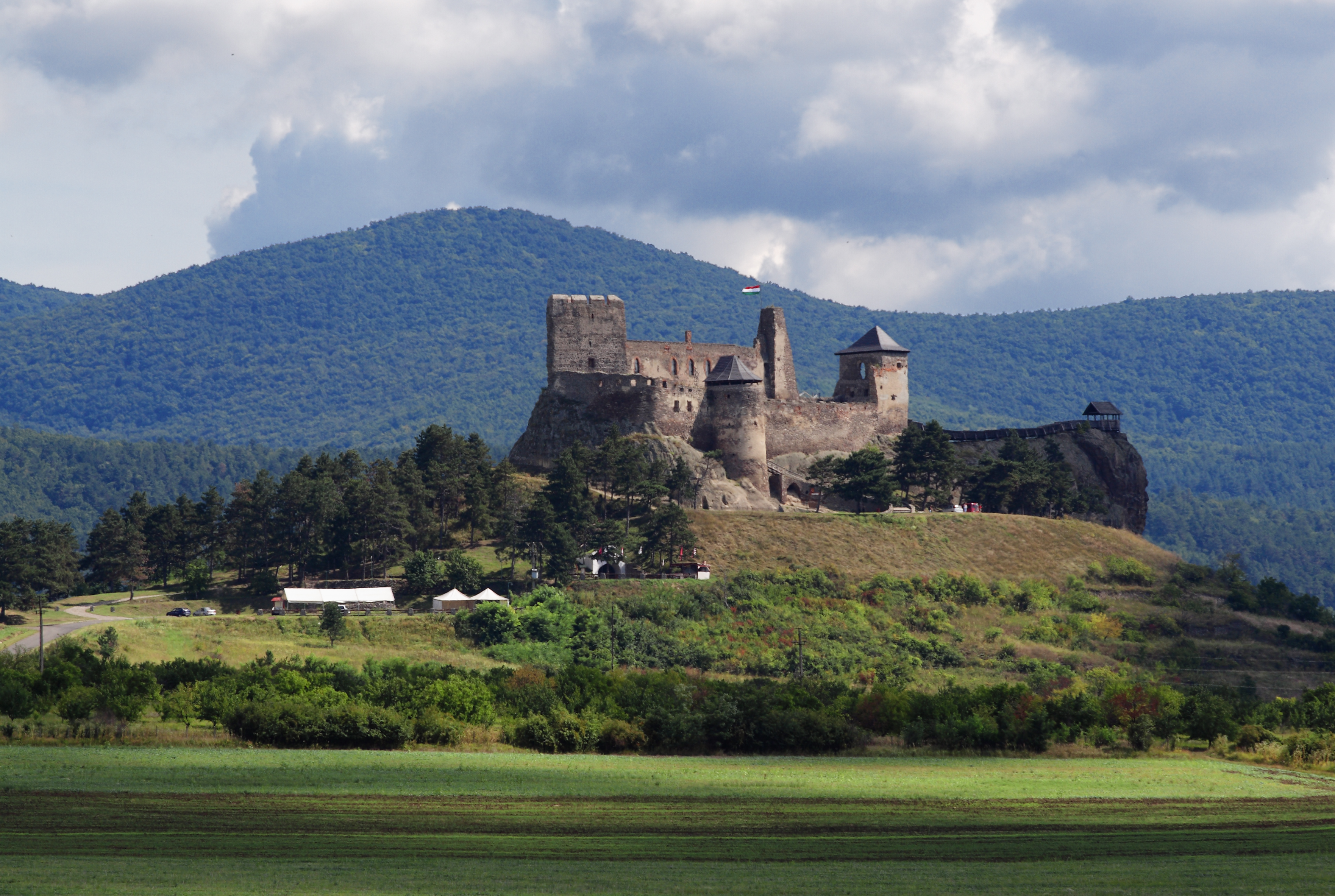 Ruins of Boldogkő Castle (from 13th century) in Boldogkőváralja (Borsod-Abaúj-Zemplén County), in the Zemplén Nature Reserve, Northeastern Hungary)